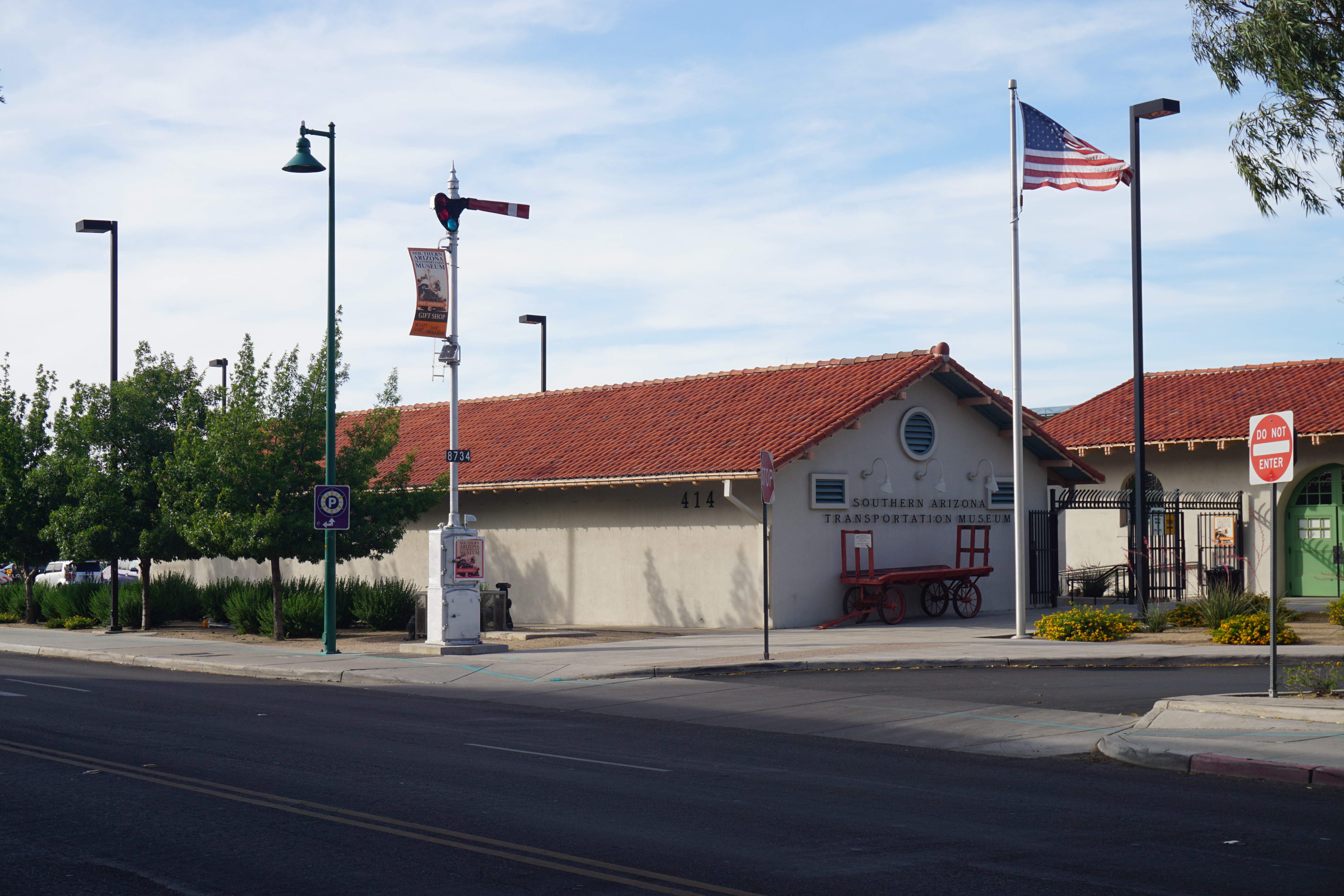 The Southern Arizona Transportation Museum at the Tucson depot in Tucson, Arizona (United States).